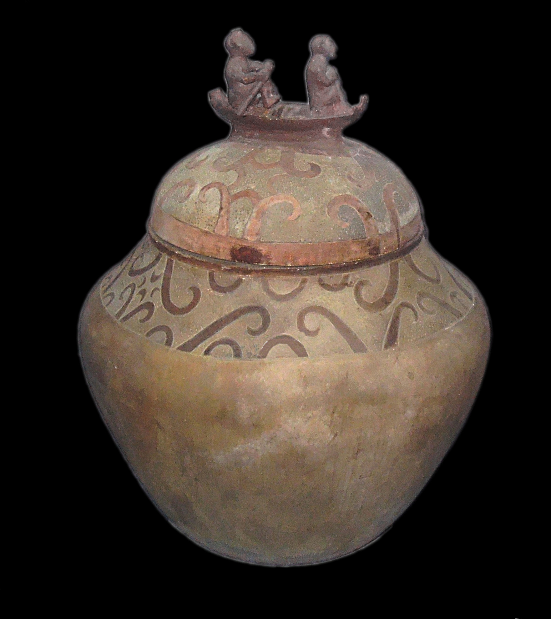 Manunggul Jar. This elaborate burial jar is topped with two figures. The front figure is the deceased man. The rear figure is holding a steering paddle directing the boat and soul of the man to the afterlife. There is the possibility the figures depicted are not Homo Sapiens and may be Homo floresiensis. There are several copies of this jar in the Philiippines. It can be viewed at the Tabon Cave Museum in Quezon, Palawan, the Palawan Cultural Center in Puerto Princesa, and National Museum in Manila.Tagalog: Itong detalyadong garapon na gamit panglibing ay may dalawang pigura. Ang harap na pigura ay isang pumanaw na lalaki. Ang likuran na pigura ay nagsasagwan ng bangka patungo sa kabilang buhay.